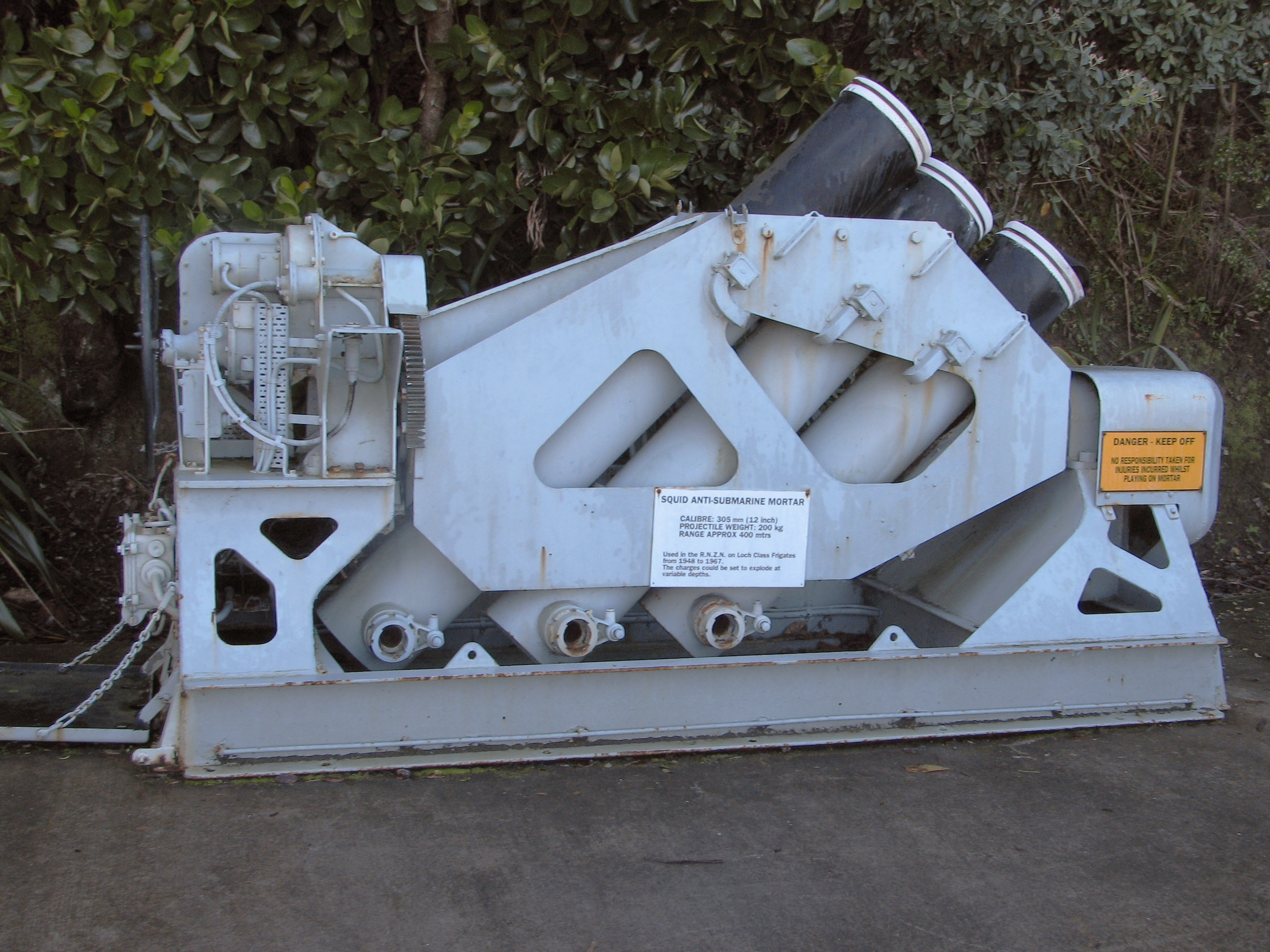 Squid Mortar Taken by Hossen27 at Devonport Naval Base museum I, the creator of this work, hereby release it into the public domain. This applies worldwide. In case this is not legally possible, I grant any entity the right to use this work for any purpose, without any conditions, unless such conditions are required by law.